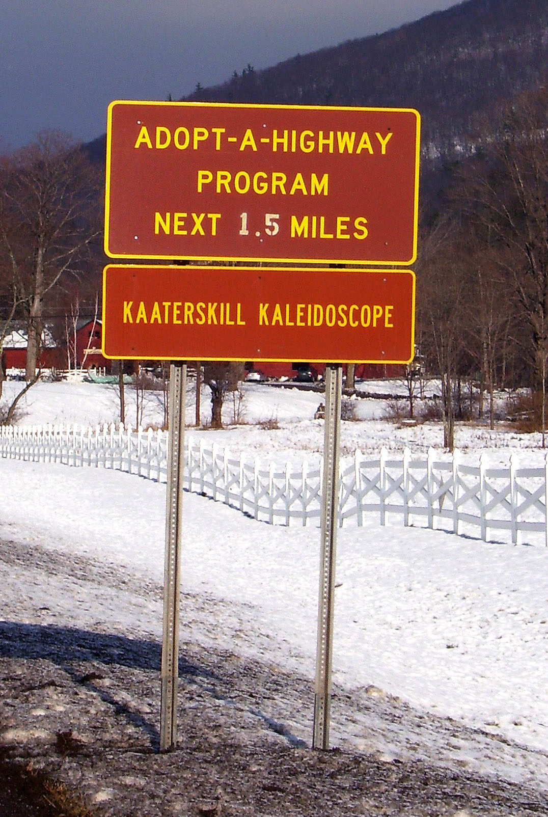 Photographed by Daniel Case on 2006-01-08 along Route 28 near Phoenicia.